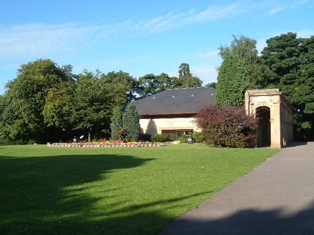 Captain Cook's Birthplace Museum. in Stewarts Park, Marton